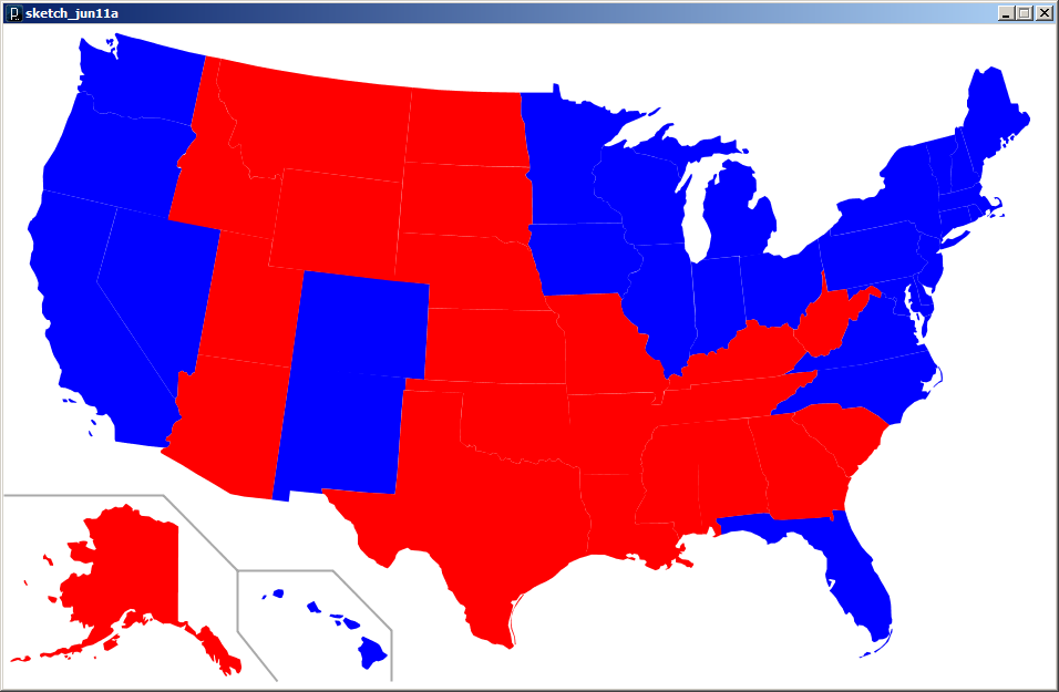 Screenshot of a Processing-1.5.1 sketch output, created by the example script in Wikipedia.